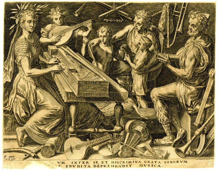 Seven Liberal Arts / Musica